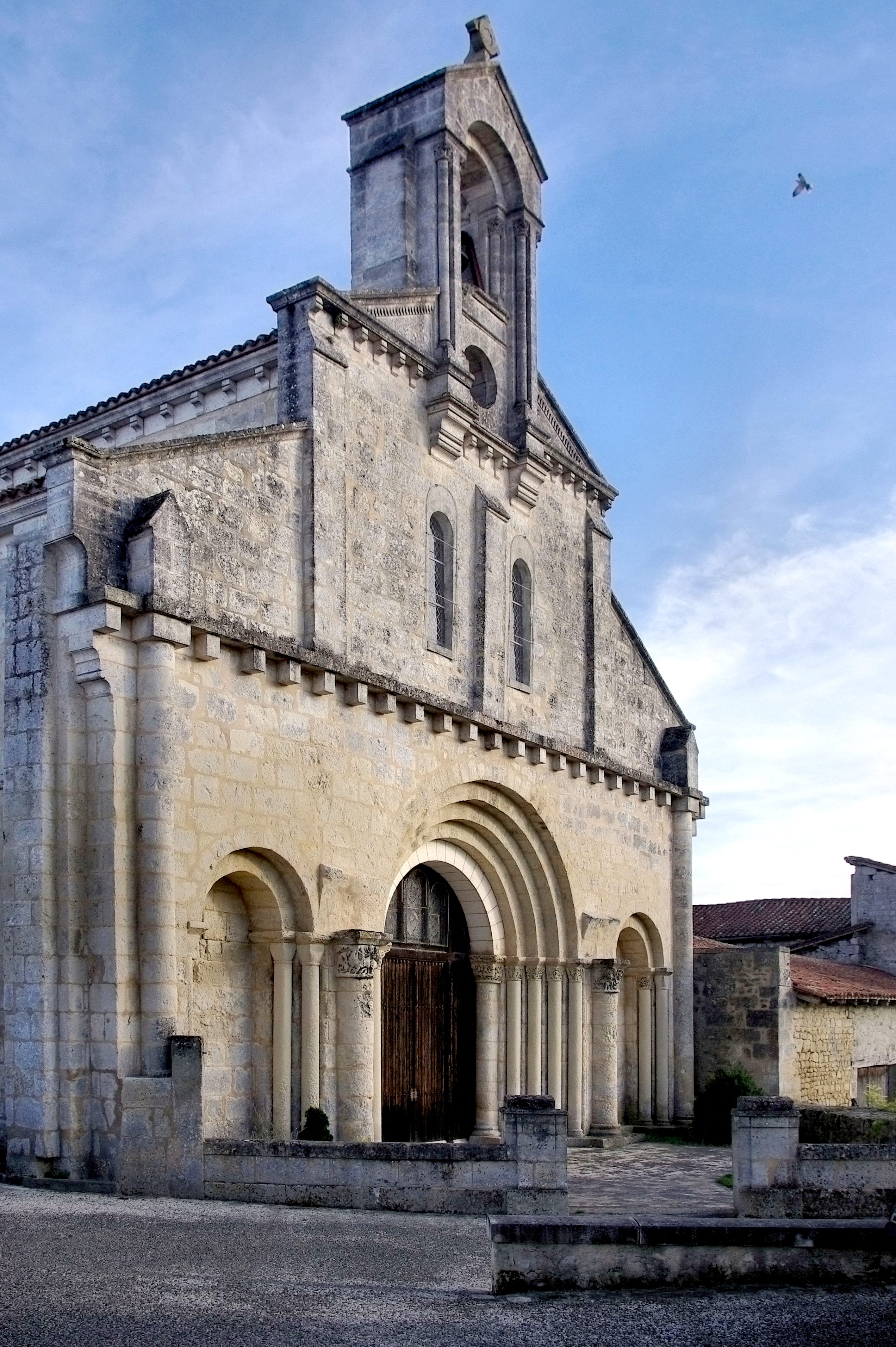 Church of Saint-Jean-Baptiste, facade. Ronsenac, Charente, France.